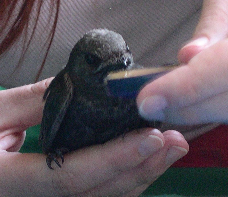 Apus apus